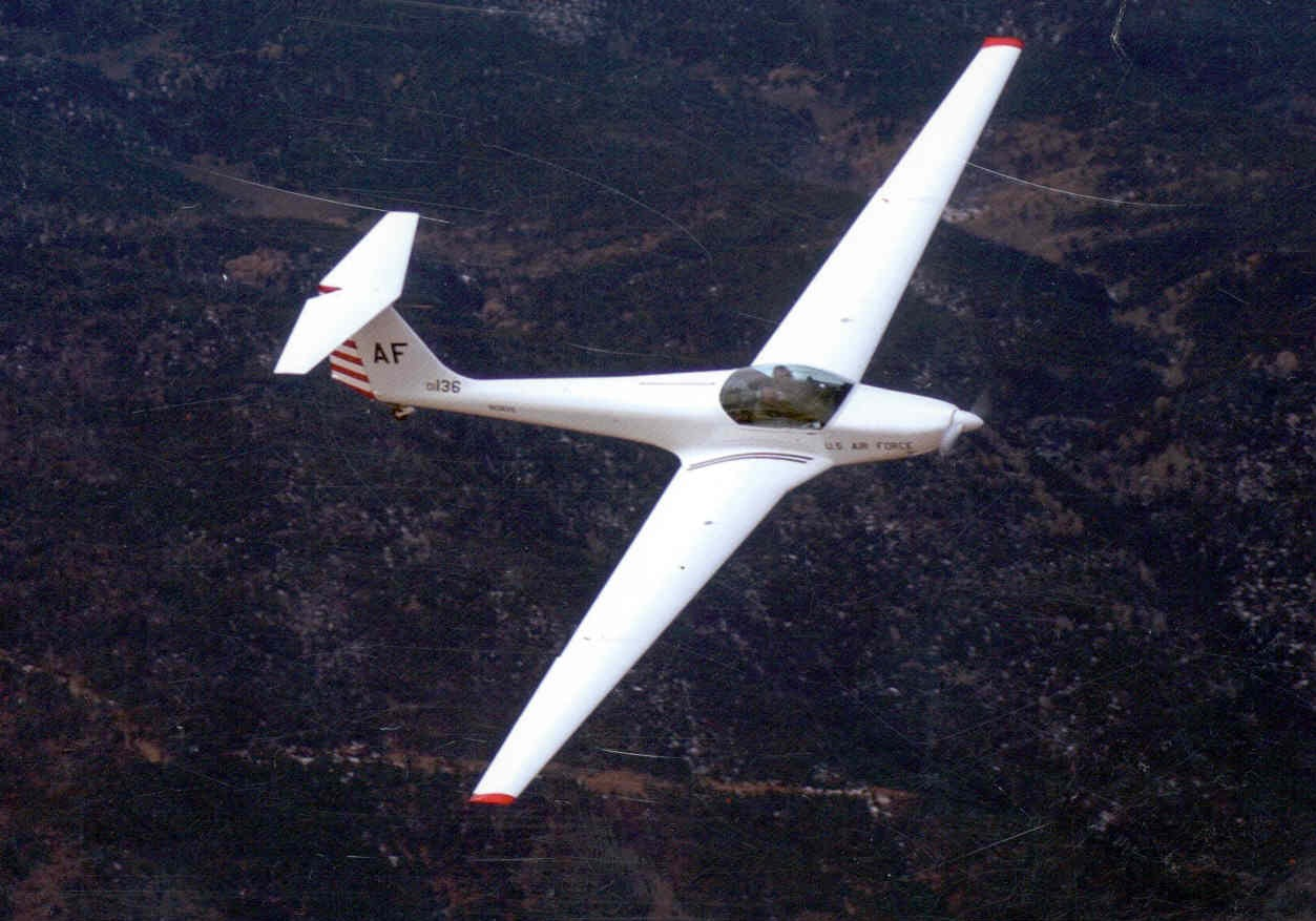 USAF TG-14A designated Aeromot AMT-200 Super Ximango glider